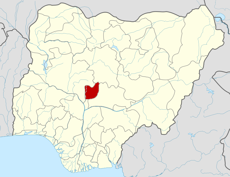 Map locator of Nigeria.